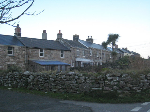 Miners' cottages at Lower Boscaswell Lower Boscaswell just outside Pendeen is a settlement originally consisting predominantly of housing for miners employed in the various mines in the area. In addition to several terraces of stone cottages like this one there is a lot of late-C20th social housing - an unusual occurrence in such a rural area.